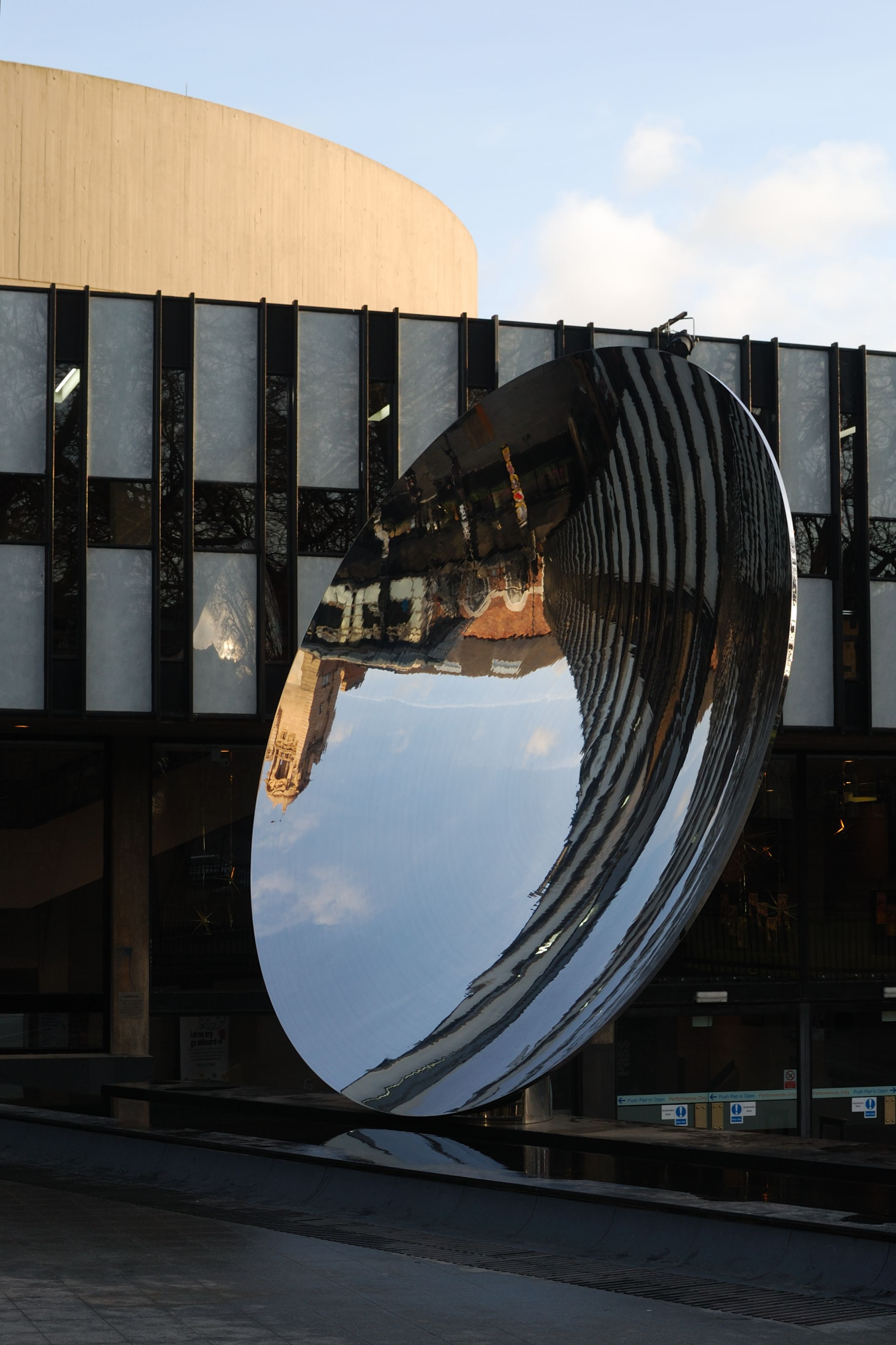 Sky Mirror, Nottingham